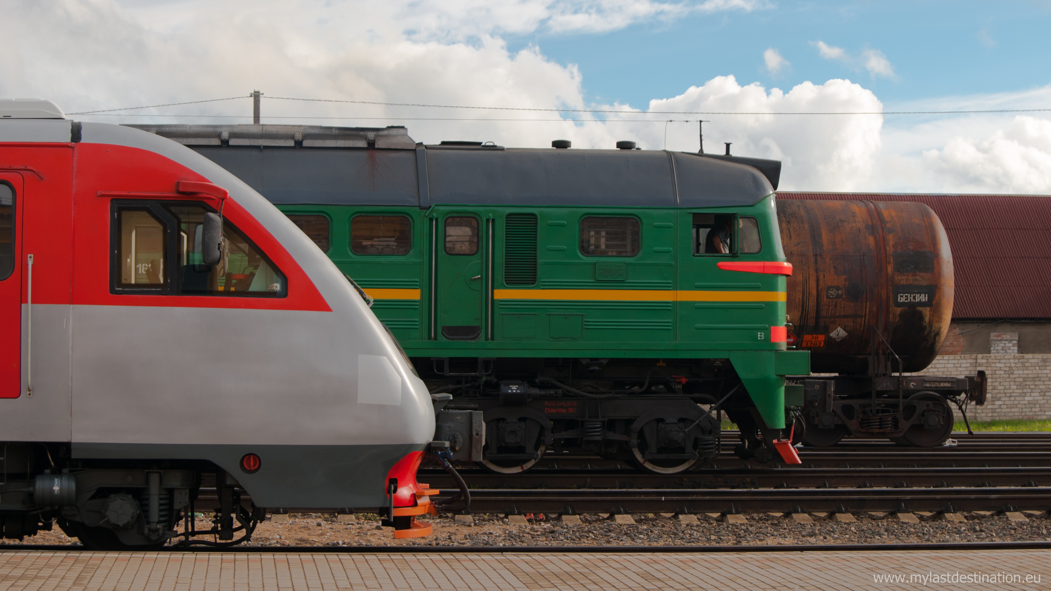 Photo of trains in Šiauliai.